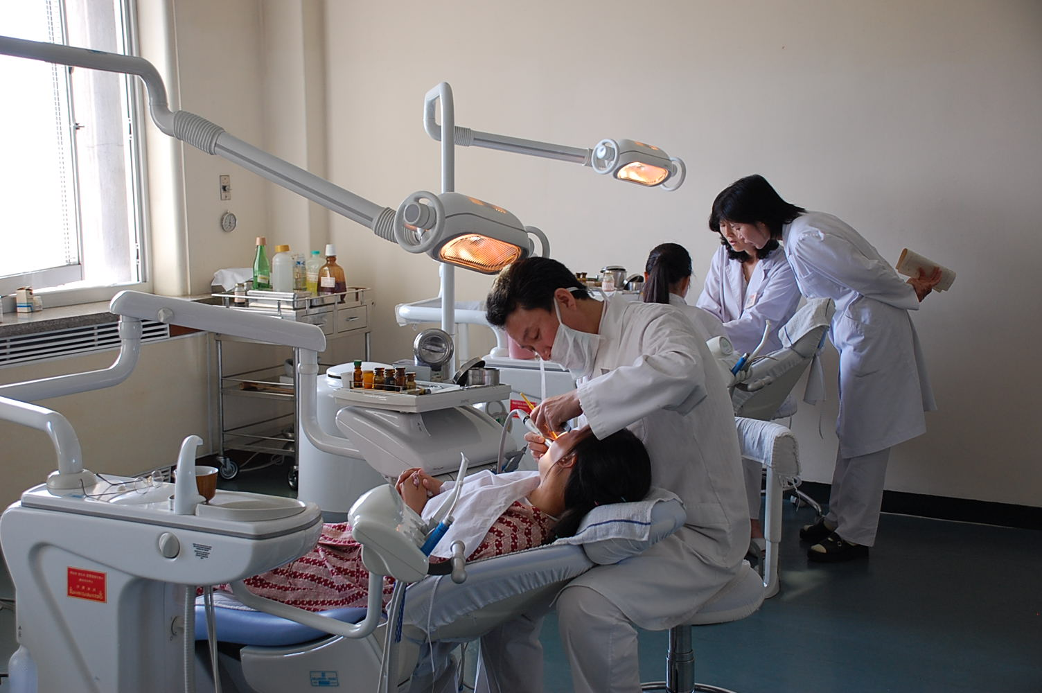 Trip to North Korea in June, 2008